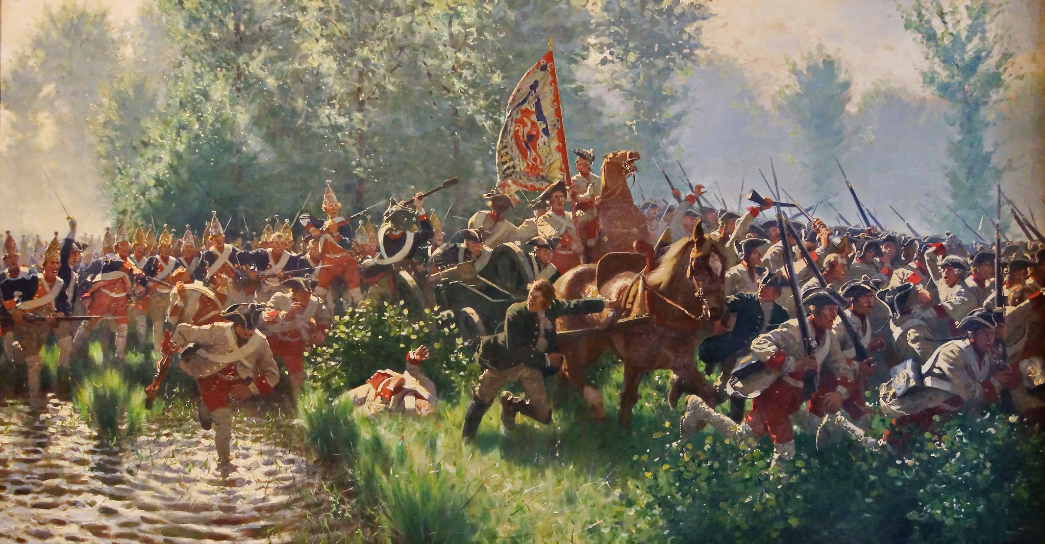 The Battle of Hohenfriedeberg on June 4, 1745. Prussian Grenadier battalions beat the Saxon Guard. Carl Röchling. Military History Museum Dresden